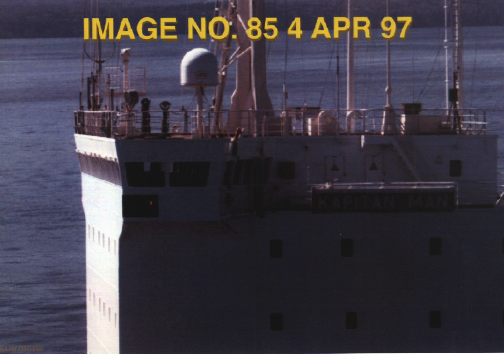 A view of part of the superstructure of the Russian merchant vessel M/V Kapitan Man, in Puget Sound near Seattle, Wash., on April 4, 1997. The Department of Defense (DoD) recently completed its investigation of a suspected lasing incident involving this vessel on that date. The results of the investigation indicate that the eye injuries of an American officer are consistent with injuries that would be expected from exposure to a low level laser, such as a laser range-finder. However, there is no evidence to indicate the source of the laser or to link the officer's eye injury to a laser on the Kapitan Man.